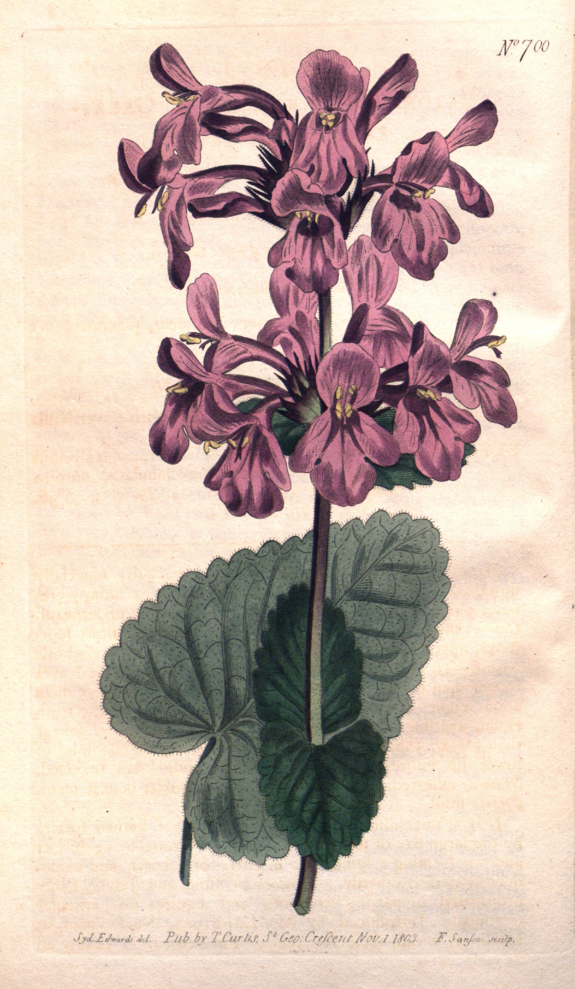 Betonica grandiflora Willd. - Curtis's Botanical Magazine, vol. 19. t 700 (1804)